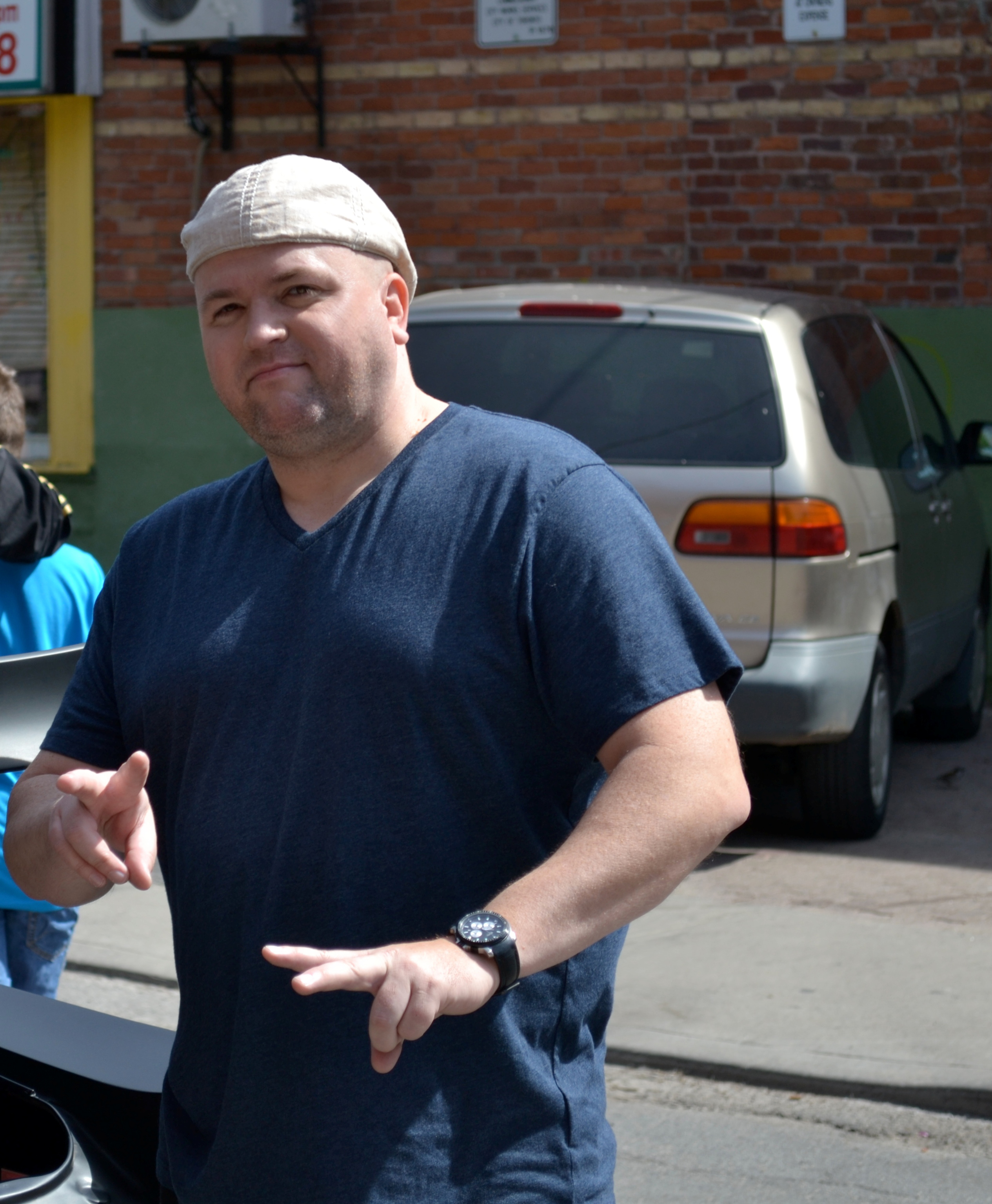 Kory Neely on location for the short film series The Trilogy.